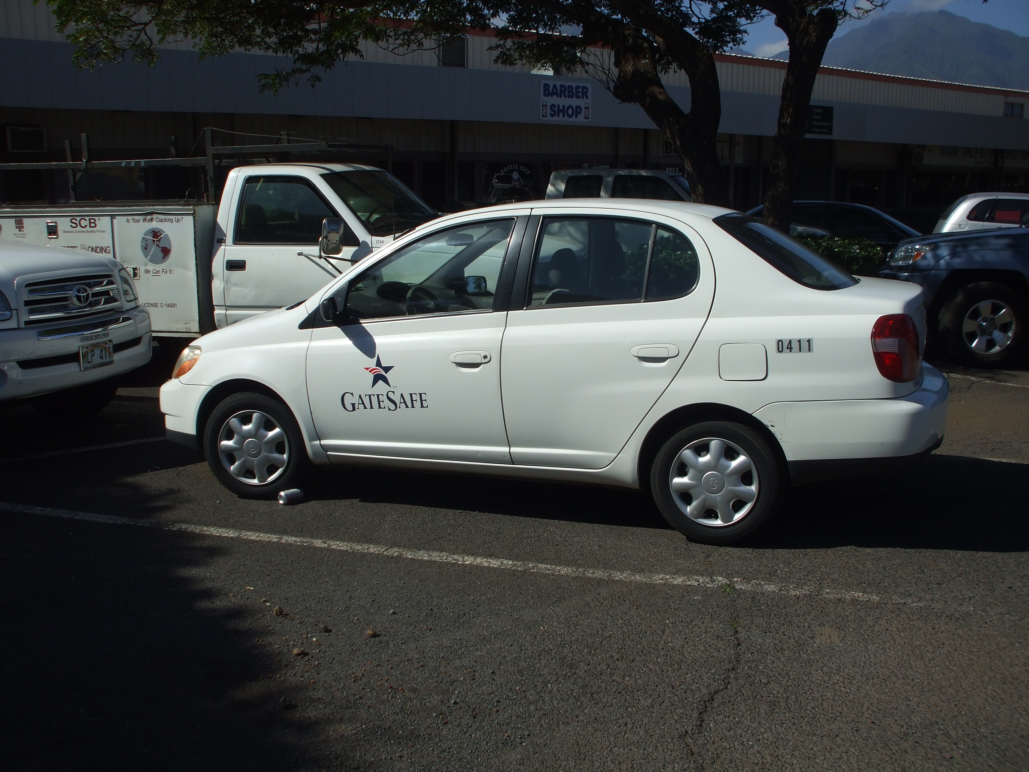 Toyota Echo Gatesafe Security Car.